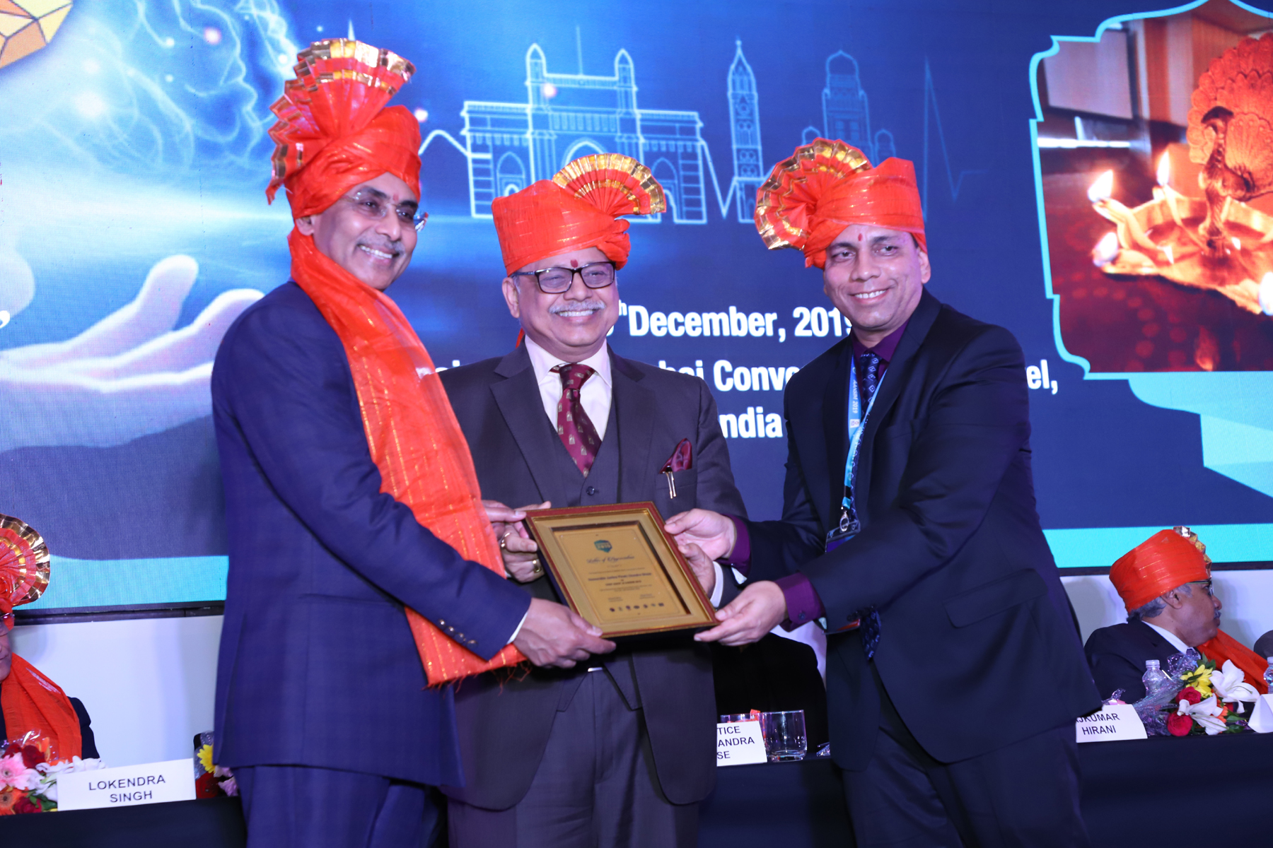 Pinaki Chandra Ghose at the15th Asian Australasian Congress of Neurological Surgeons, 68th Annual Conference of The Neurological Society of India, and the International Meningioma Society Congress, in Mumbai